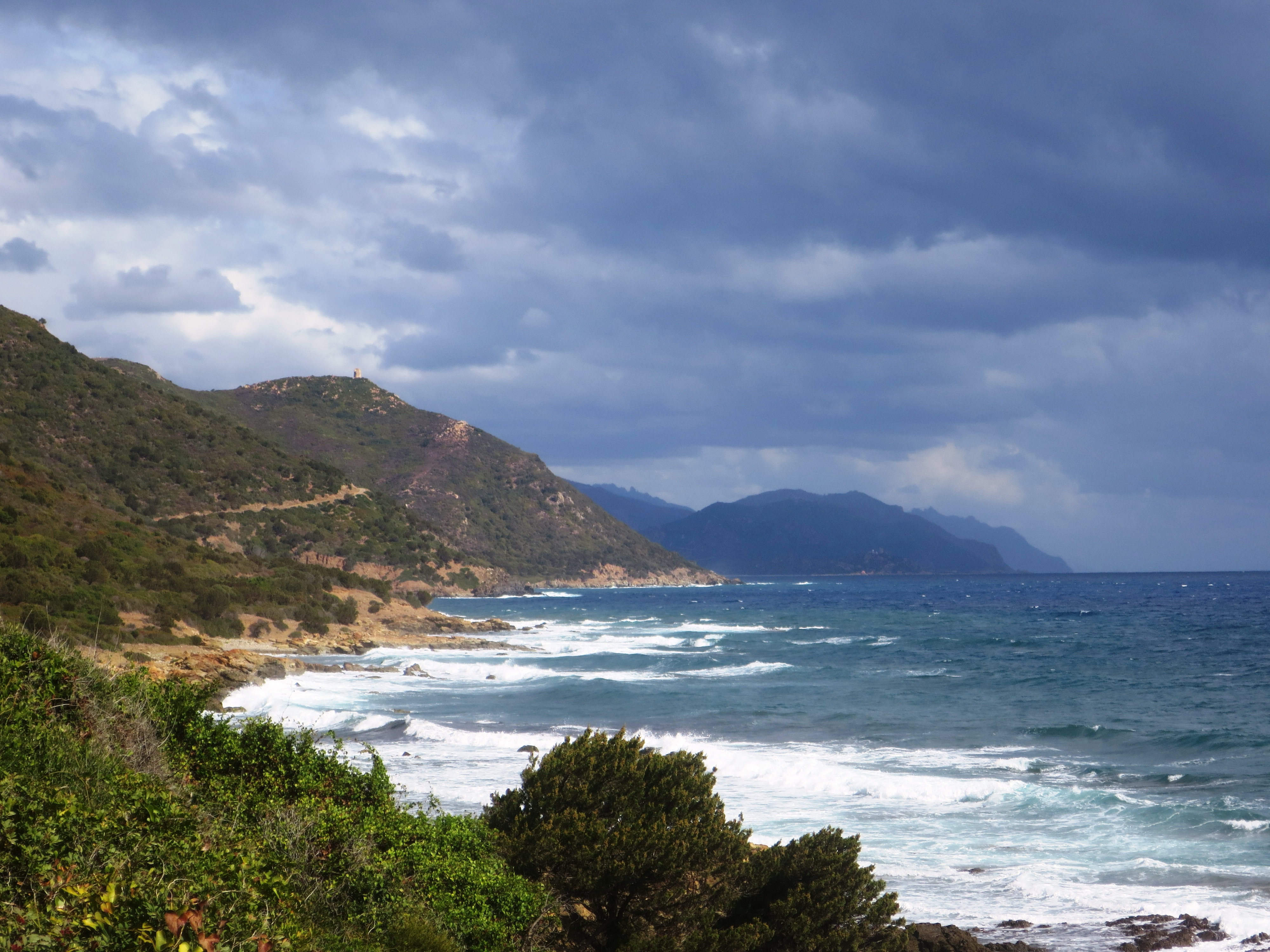 Villaputzu, Sardinia